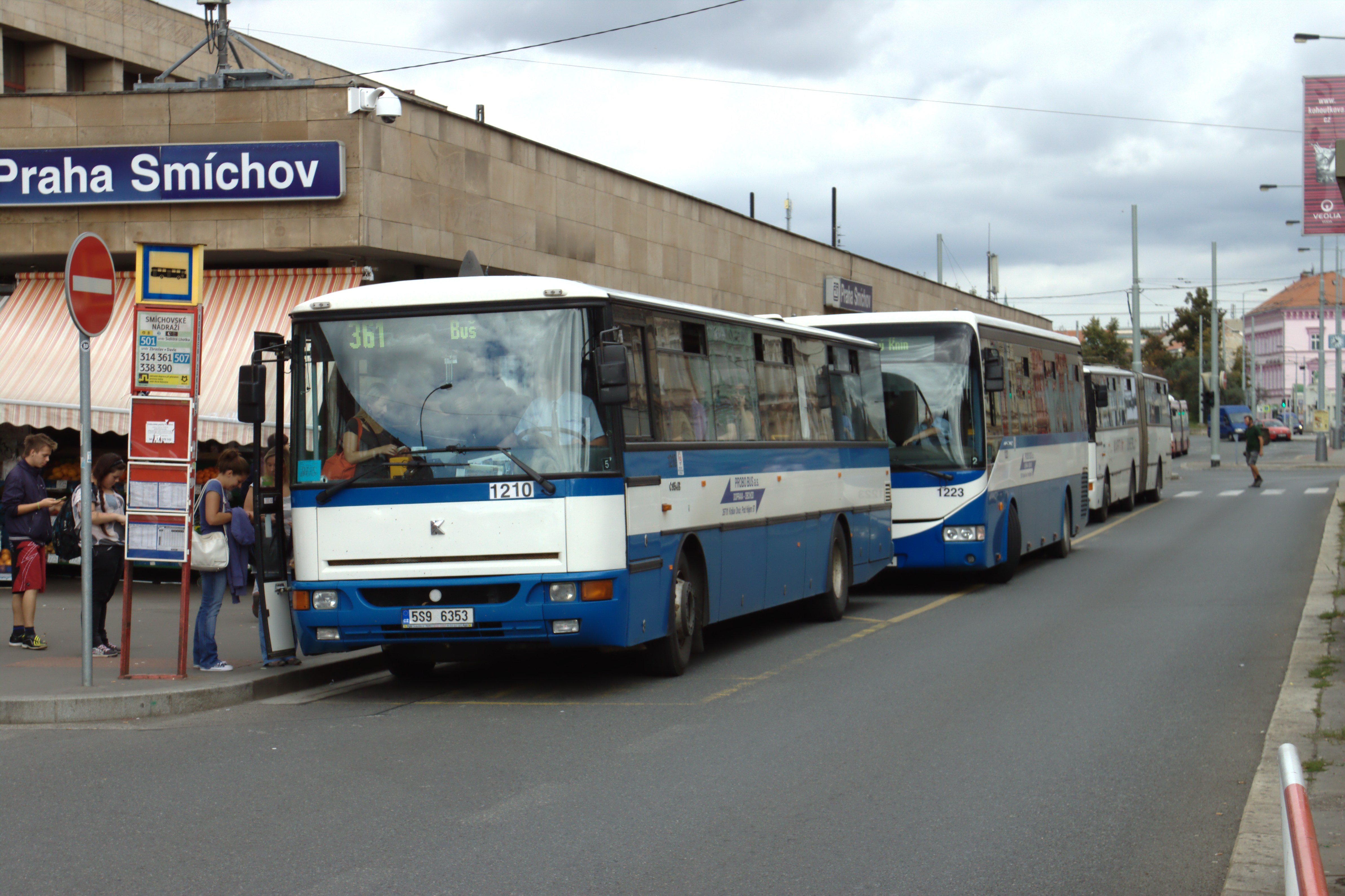 Some buses of Probo Trans Beroun company are waiting at Prague-Smíchovské nádraží bus terminus